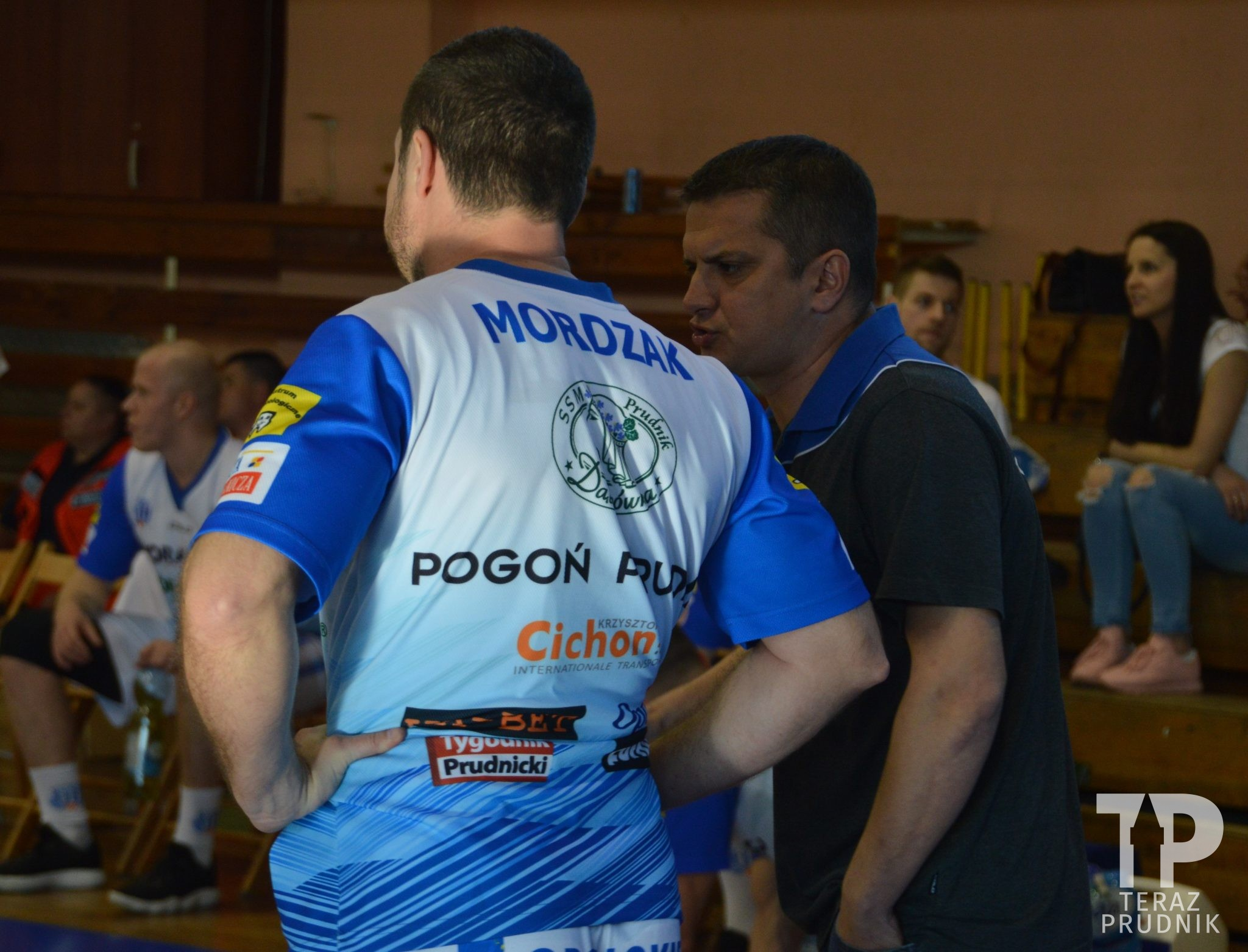 Pogoń Prudnik – Doral Kłodzko 14.04.2018